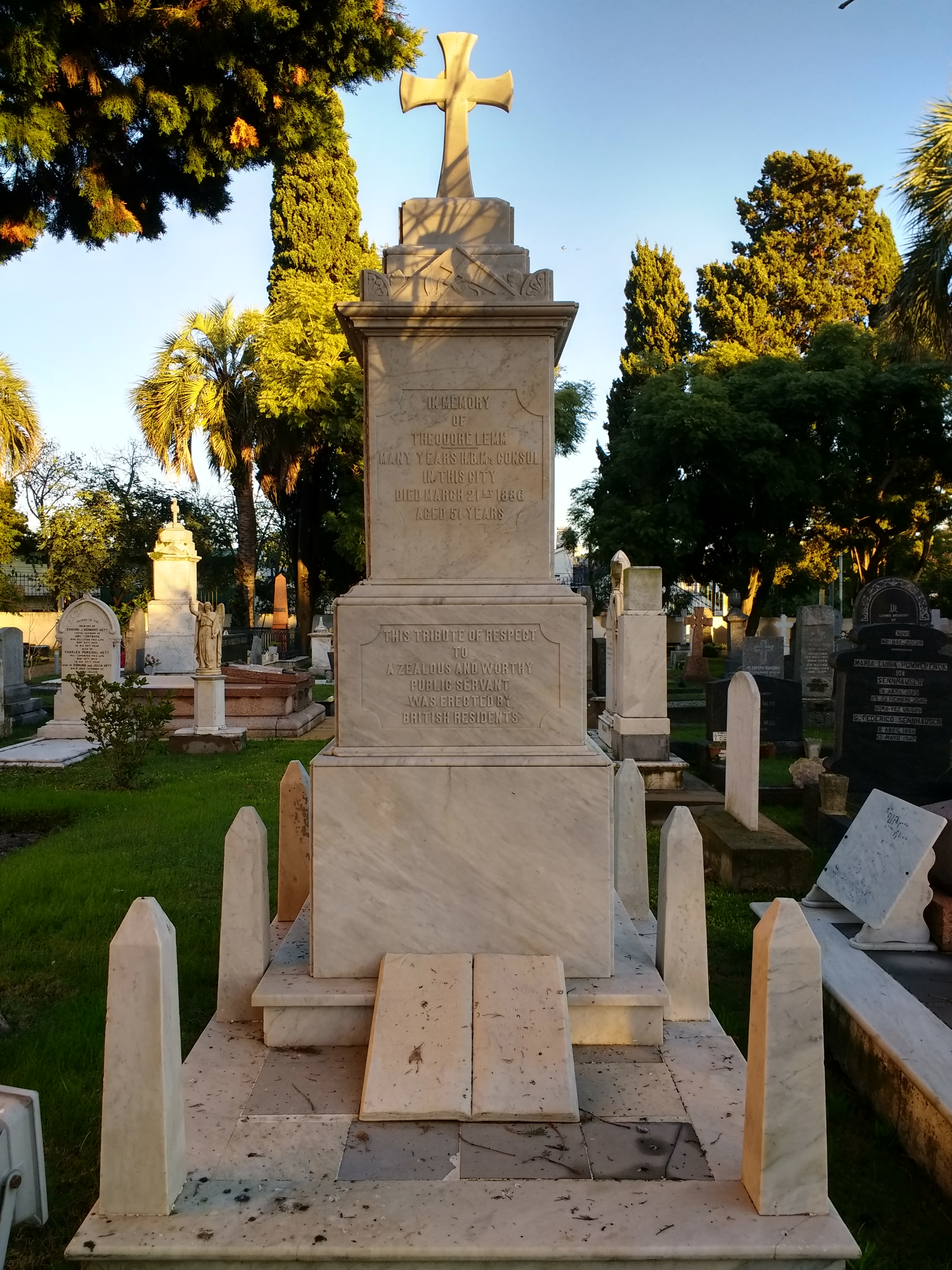 In memory of​ Theodore Lemm - British Cemetery Montevideo.